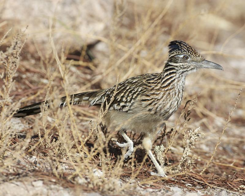 Greater Roadrunner Geococcyx californianus November 10 2010 Henderson, Nevada, USA 690V5526